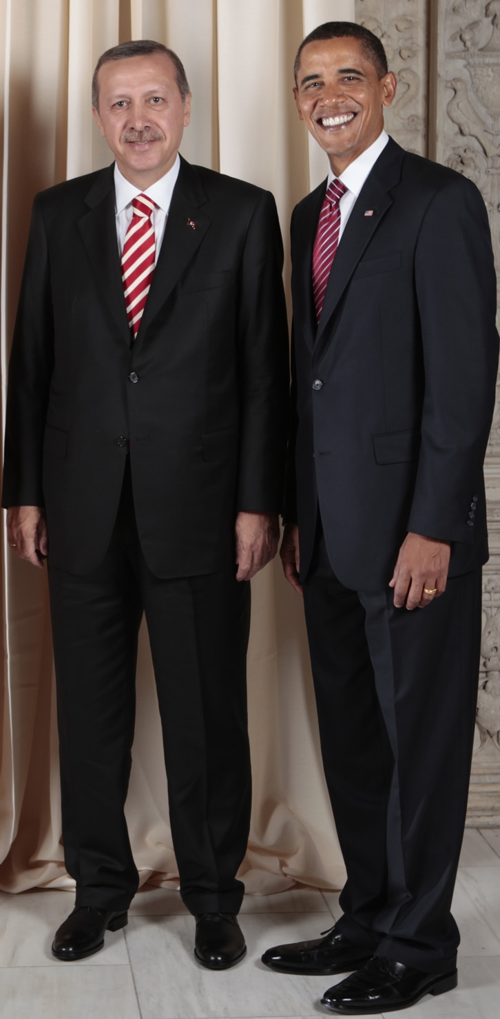 Turkish Prime Minister Recep Tayyip Erdoğan and then U.S. President Barack Obama pose for a photo during a reception at the Metropolitan Museum in New York, Wednesday, Sept. 23, 2009. (Official White House Photo by Lawrence Jackson).